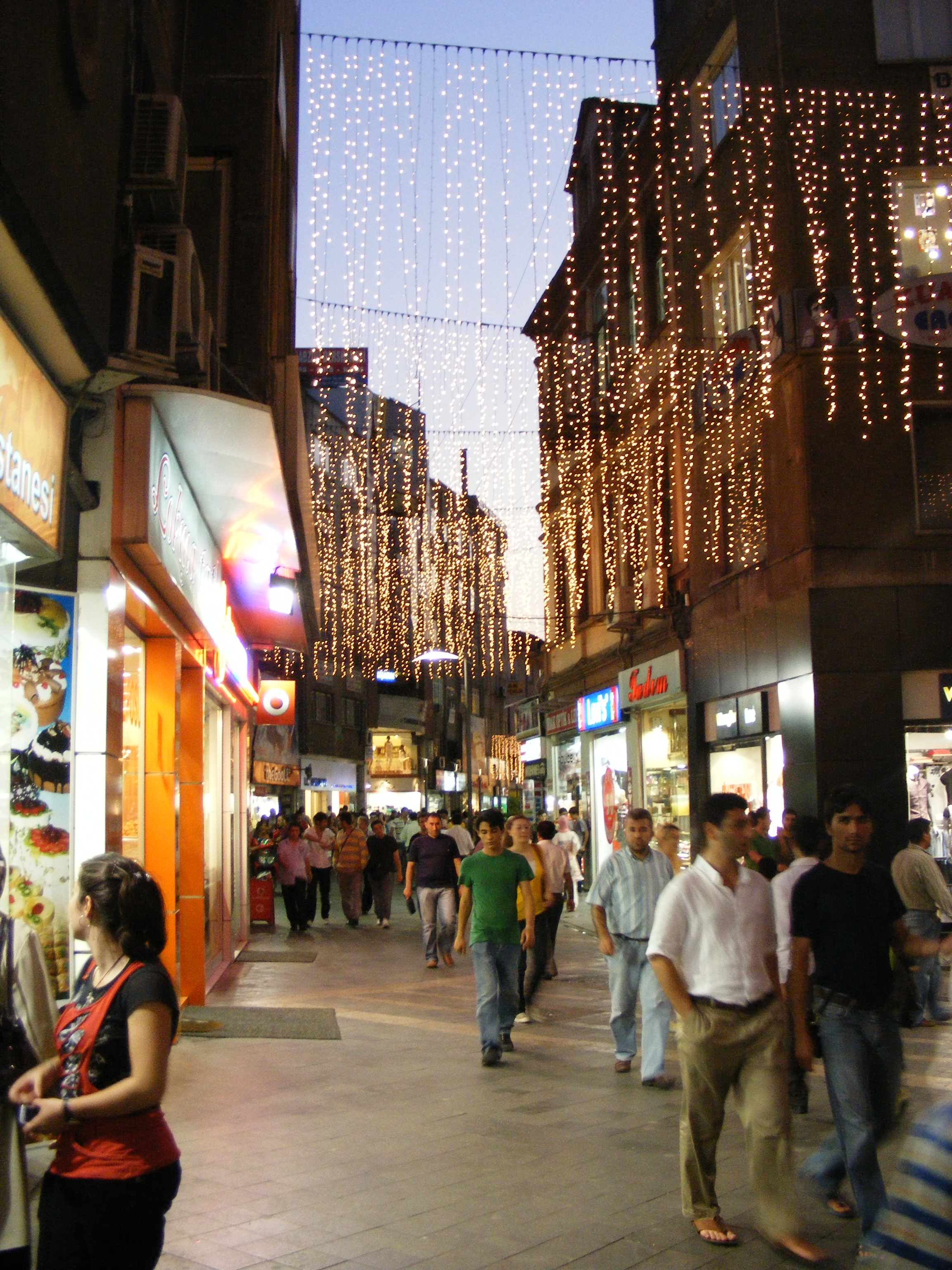 Uzun Sokak at night, Trabzon